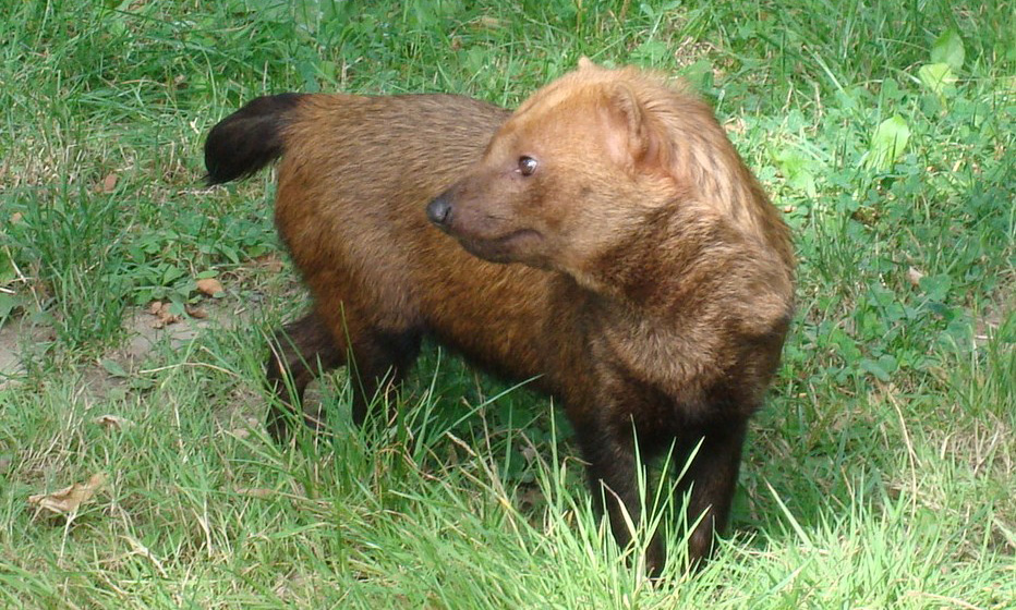 Bush dog in Prague Zoo